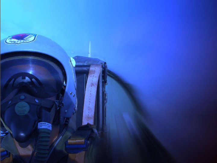 Pilot